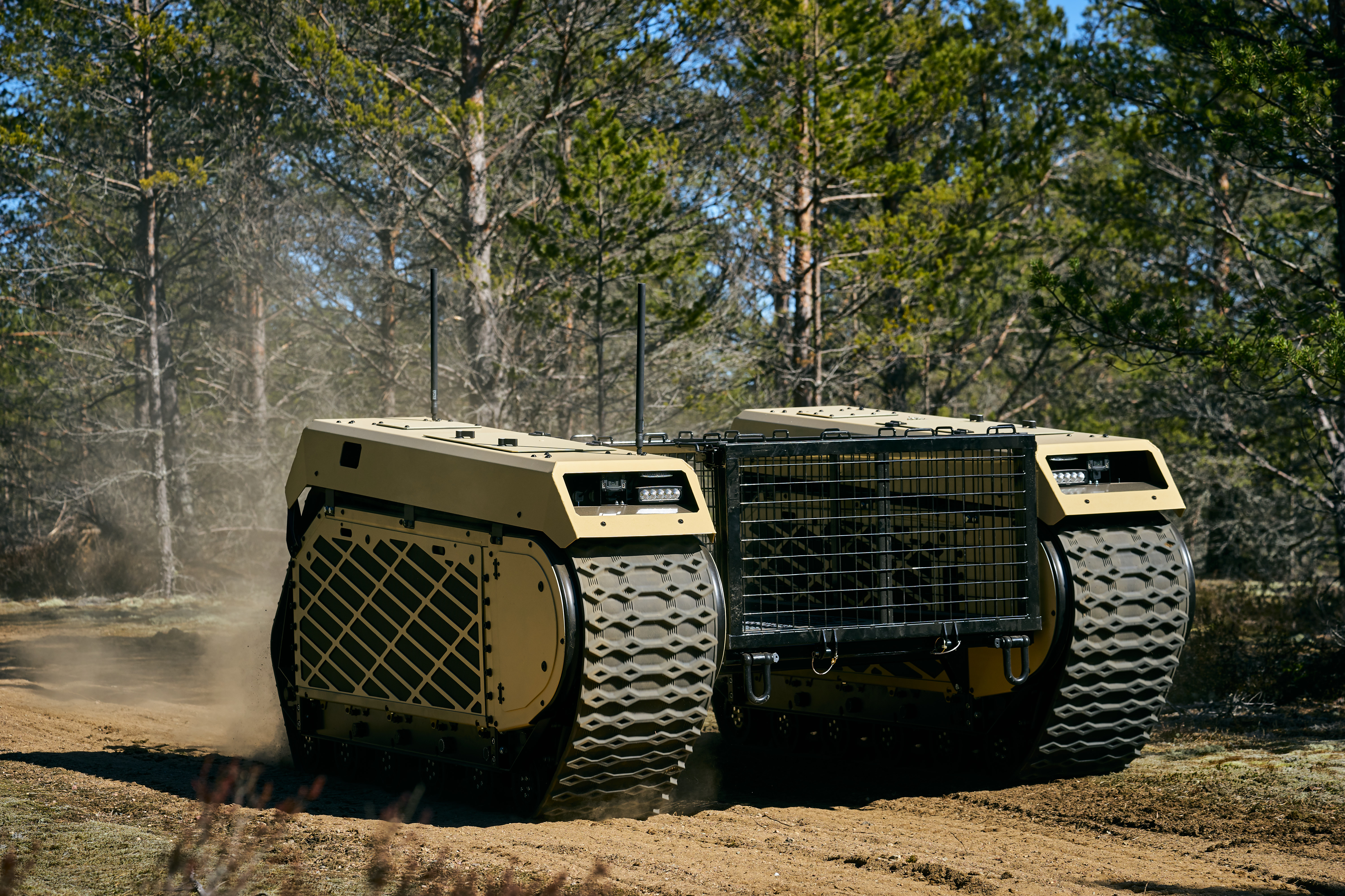 The THeMIS UGV 5th generation.